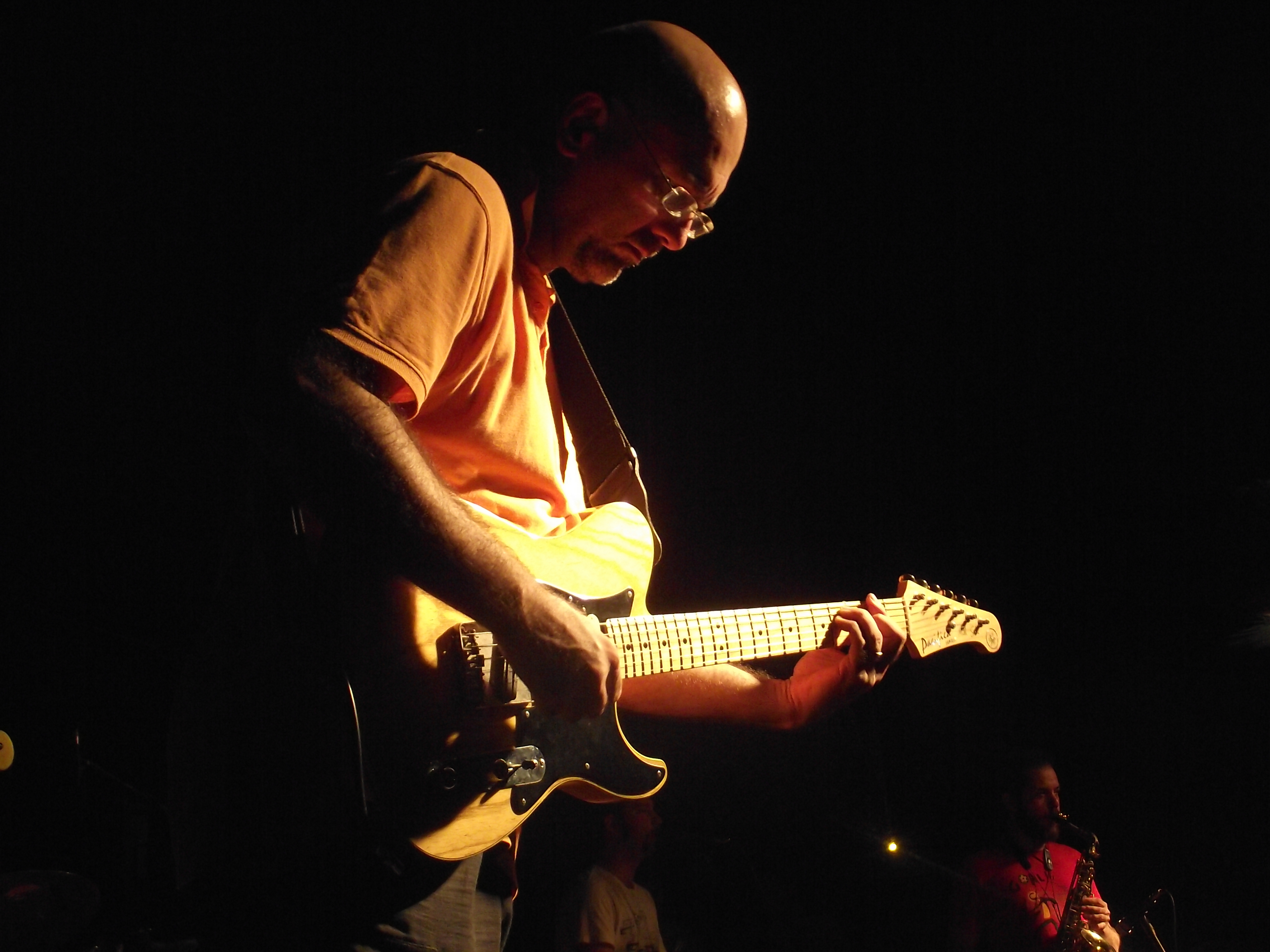 Akın Eldes, Seferihisar, Izmir